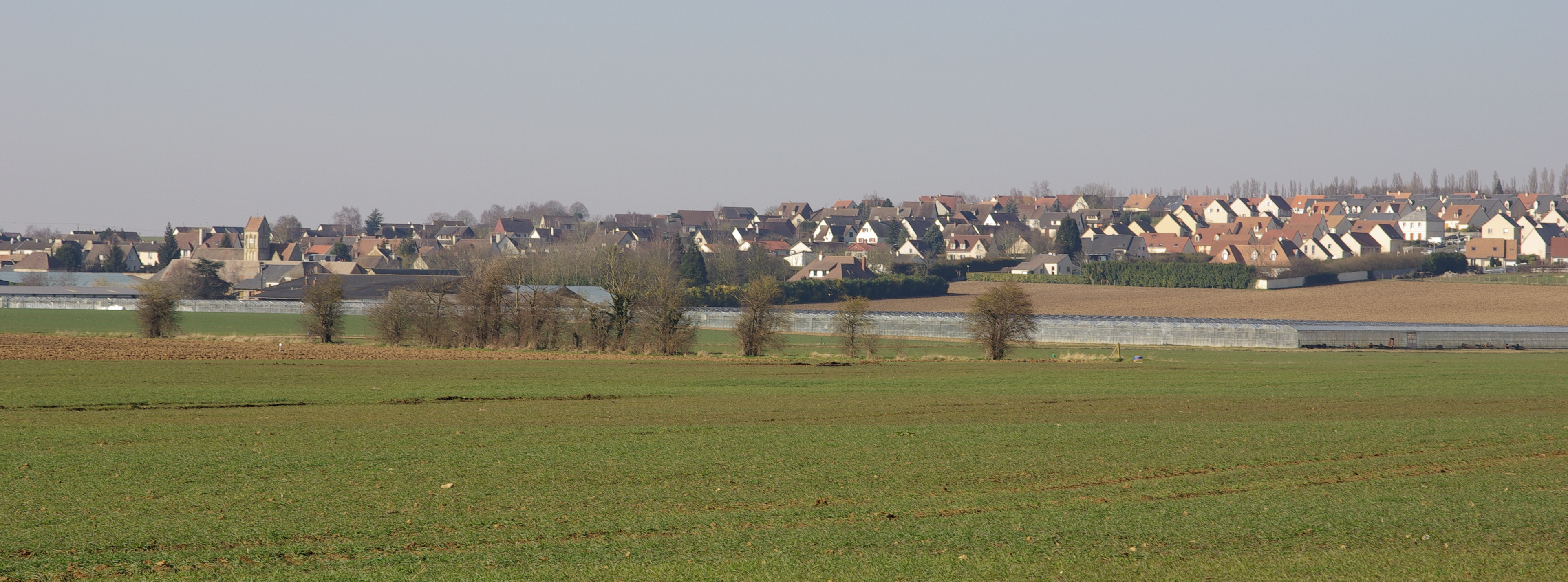 The village Fontenay-le-Marmion